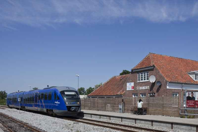 Strandby station, situated app. 6 km northwest of the danish city Frederikshavn, train arrival, june 2009